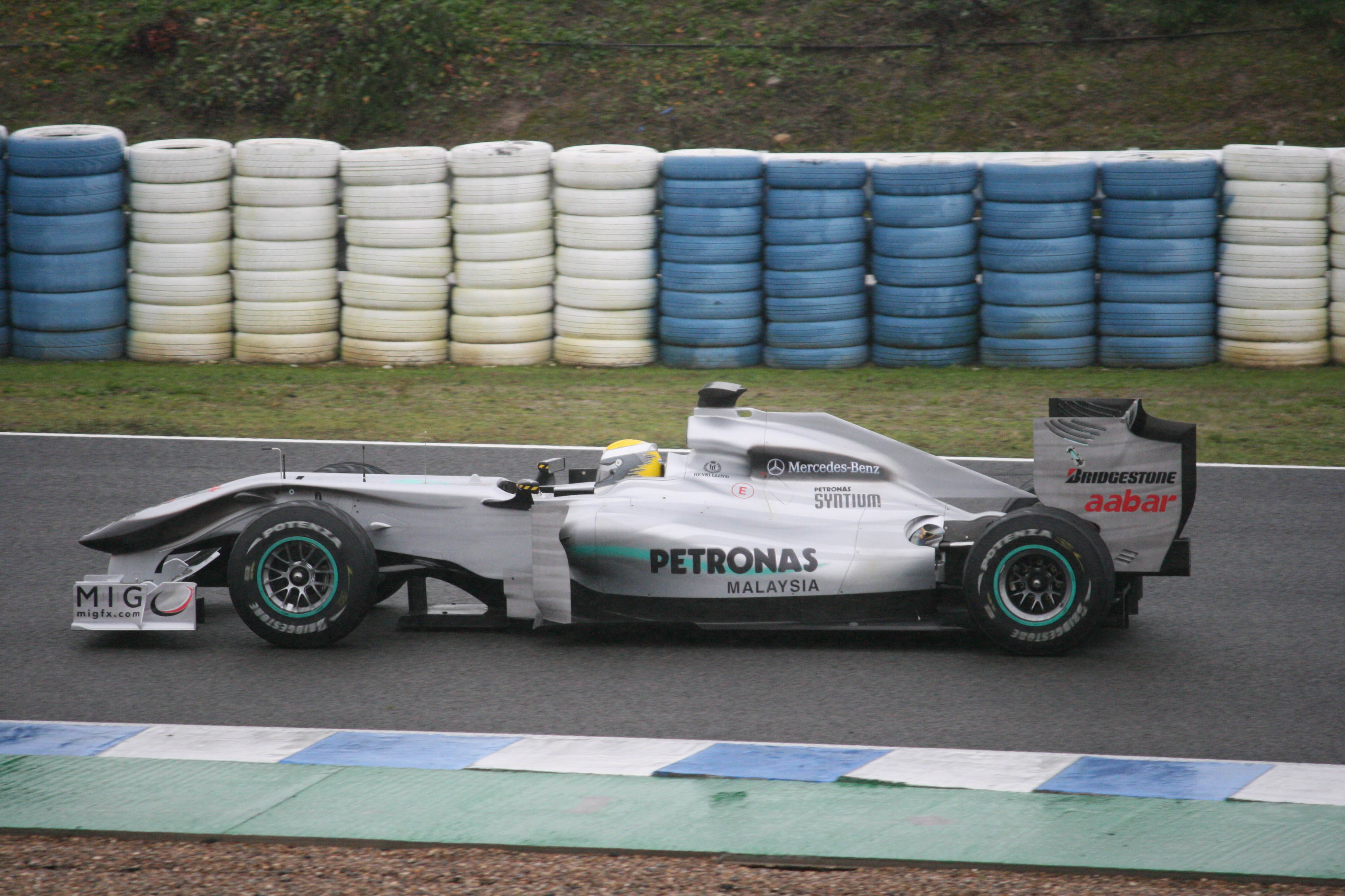 Nico Rosberg testing for Mercedes GP at Jerez, 10/02/2010.